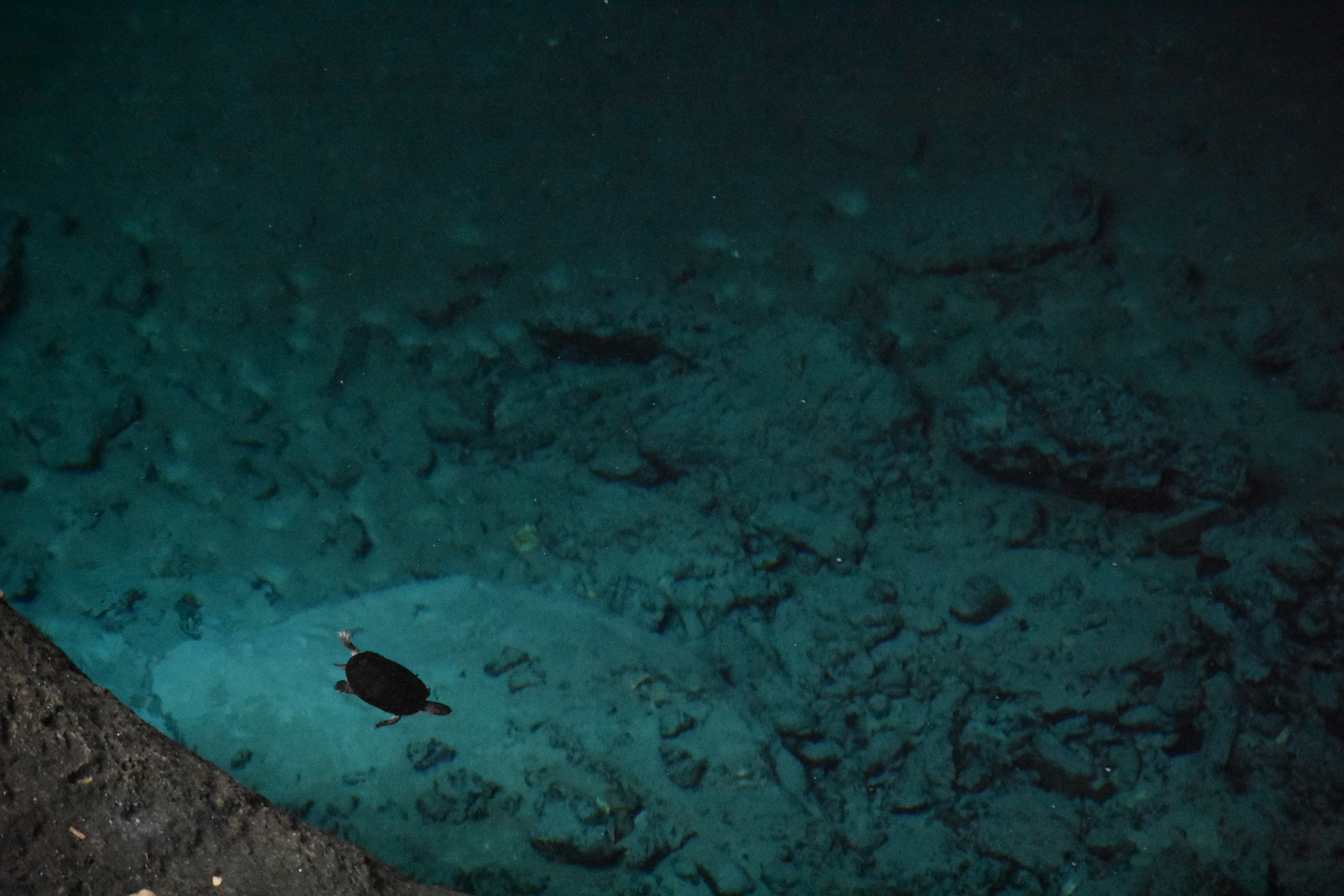 Los Tres Ojos national park in Santo Domingo Este, Dominican Republic.